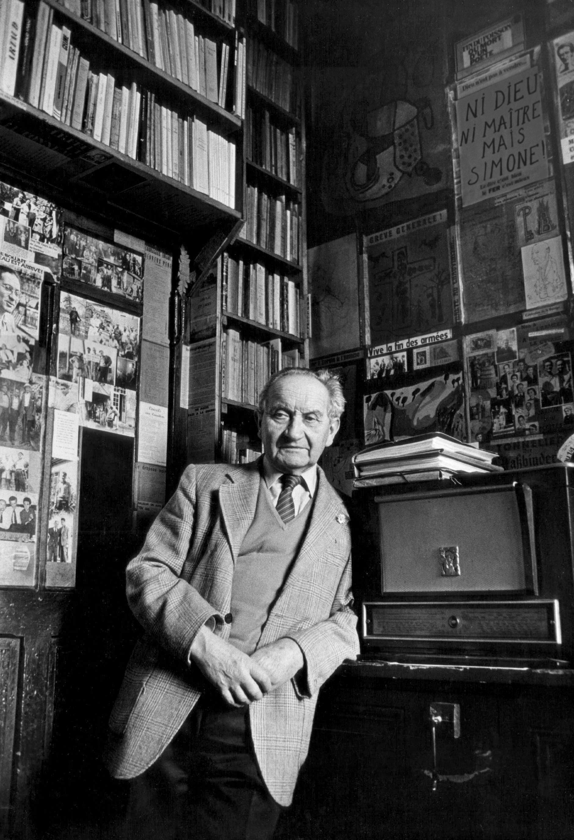 Pierre Boujut in his office (1983). Photos, posters, drawings and poems can be seen on the walls. Jarnac, Charente, France.